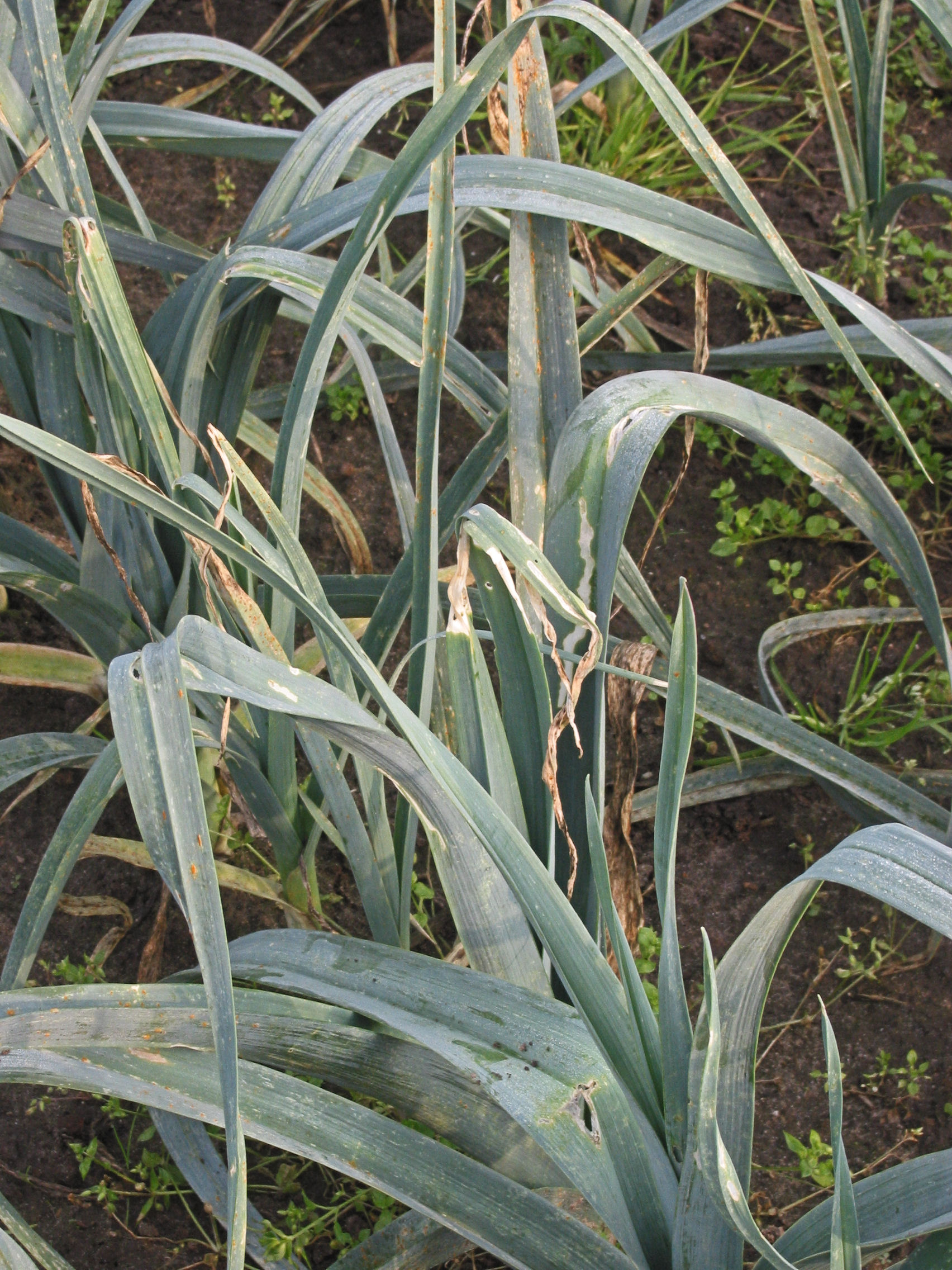 Acrolepiopsis assectella damage on Allium porrum